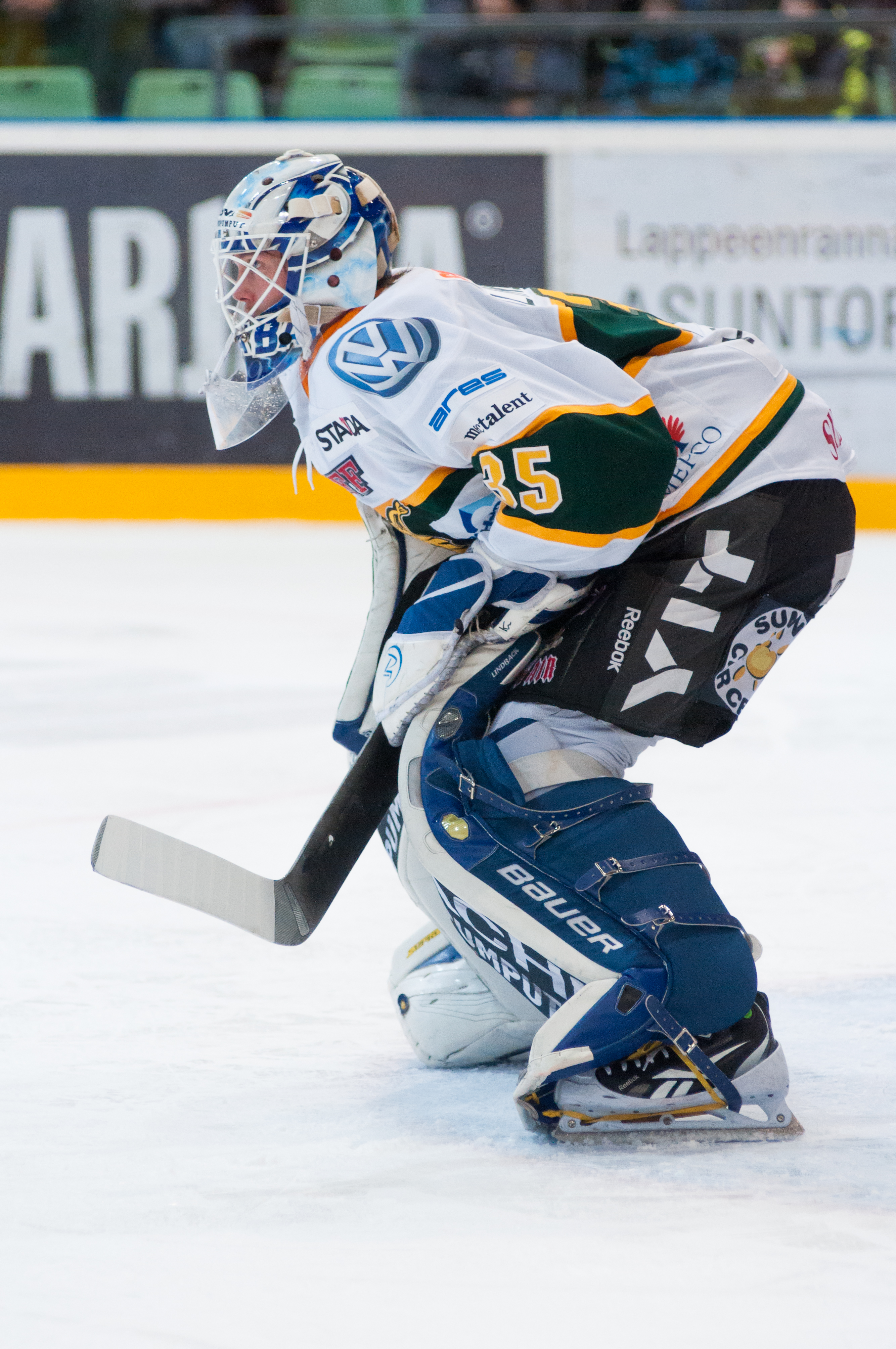 Swedish ice hockey goaltender Anders Lindbäck playing for Tampereen Ilves in Lappeenranta, Finland.